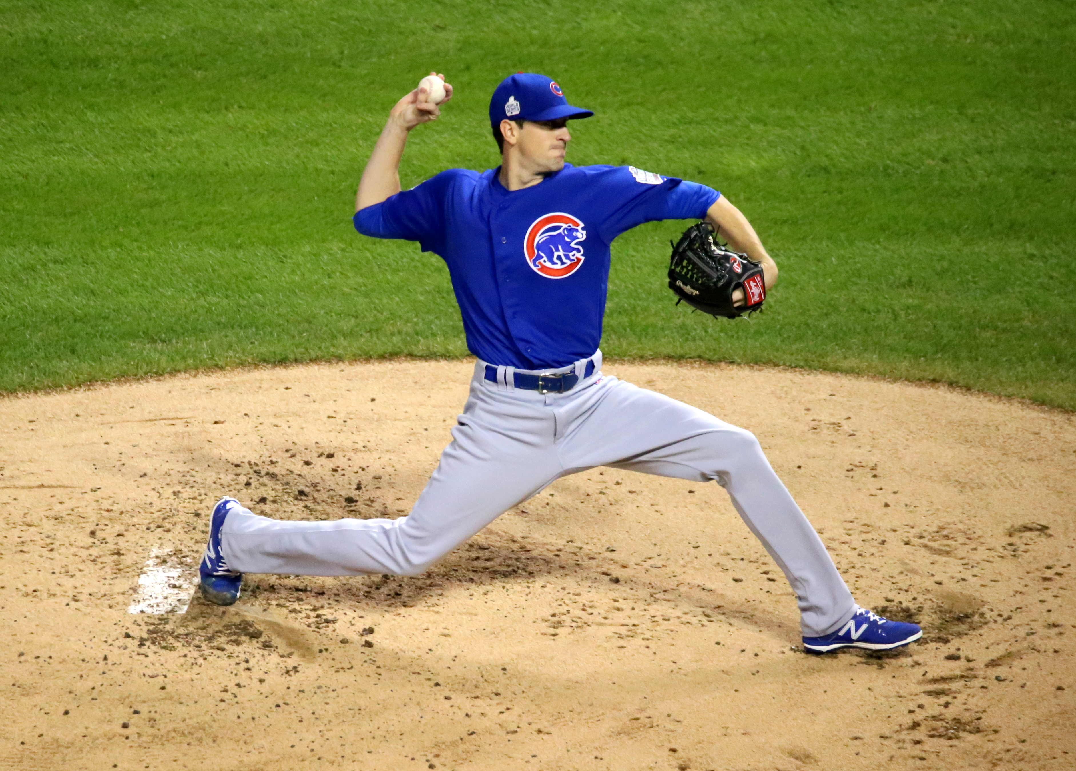 Chicago Cubs starting pitcher Kyle Hendricks throwing a pitch in the bottom of the first inning against the Cleveland Indians in Game 7 of the 2016 World Series at Progressive Field in Cleveland, Ohio.